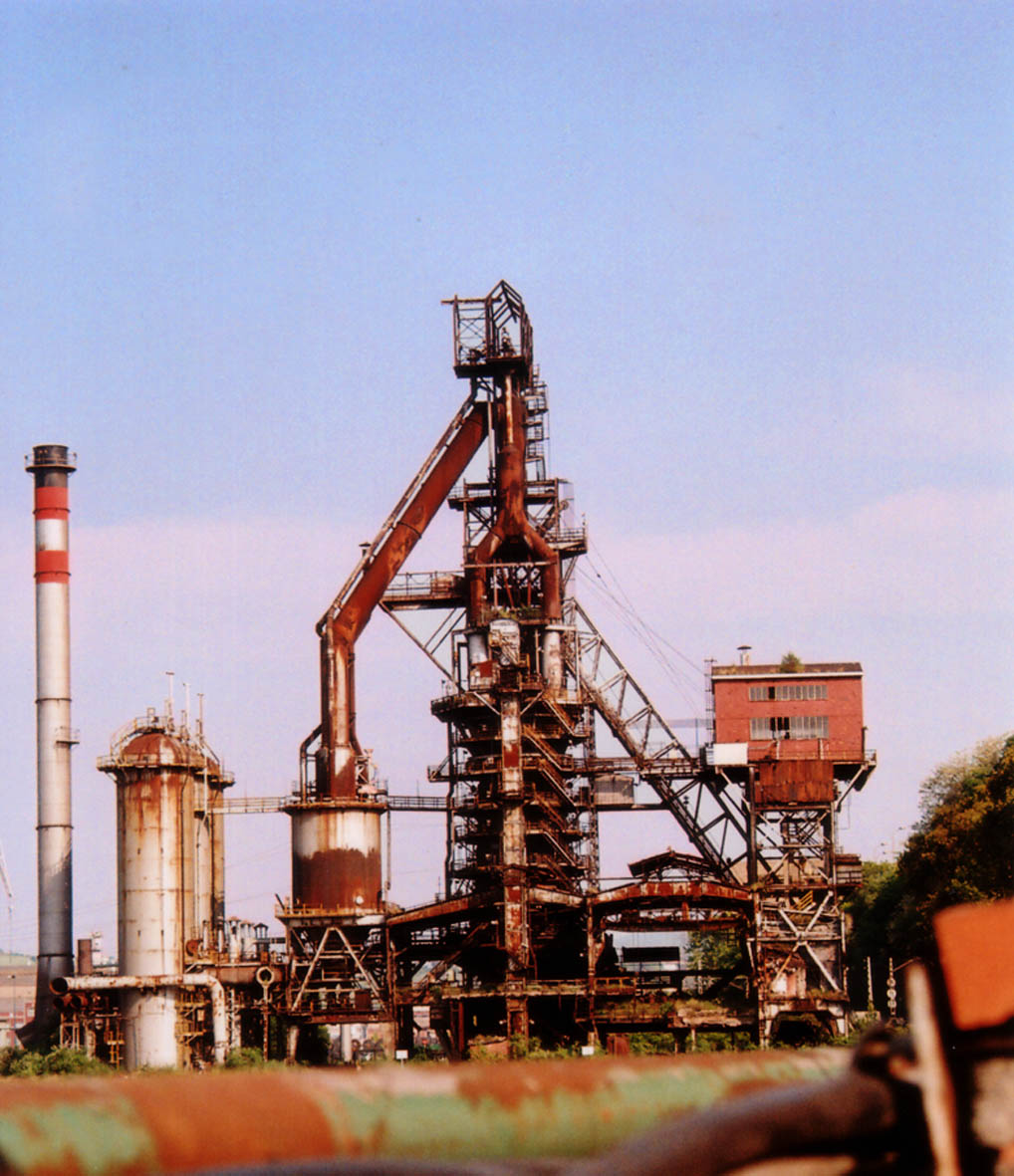 Blast furnace Antiguo Alto horno de Sestao; technical cultural monument From left to right: Chimney, blast furnace gas pipe with „dust bag“, blast furnace, inclined elevator, winch house